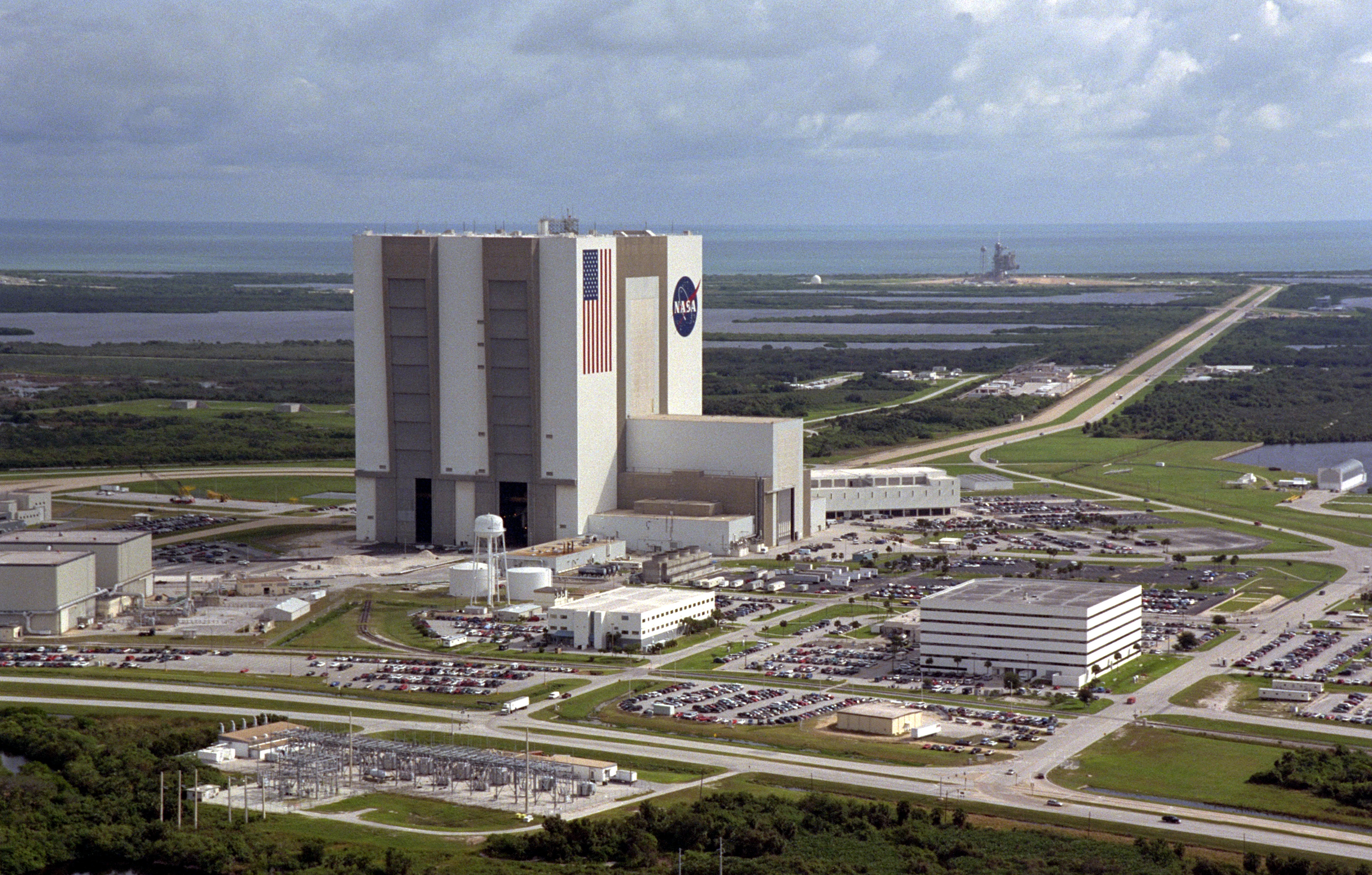 Kennedy Space Center - Aerial View of Launch Complex 39An aerial view of the Launch Complex 39 area shows the Vehicle Assembly Building (center), with the Launch Control Center on its right. On the west side (lower end) are (left to right) the Orbiter Processing Facility, Process Control Center and Operations Support Building. Looking east (upper end) are Launch Pads 39A (right) and 39B (just above the VAB). The crawlerway stretches between the VAB and the launch pads toward the Atlantic Ocean, seen beyond them. At right is the turning basin where new external tanks are brought via ship.